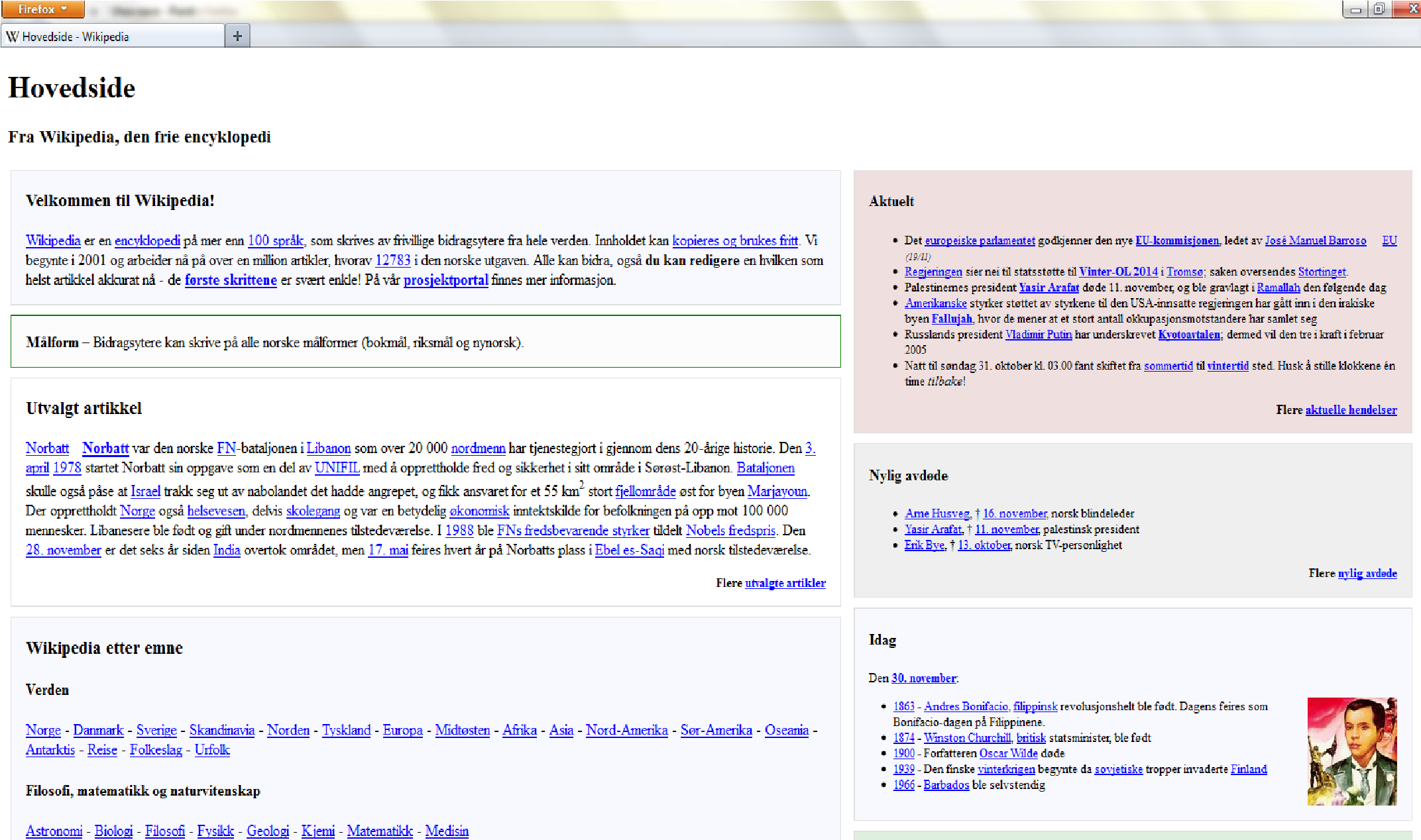 norwegian wikipedia in 2004